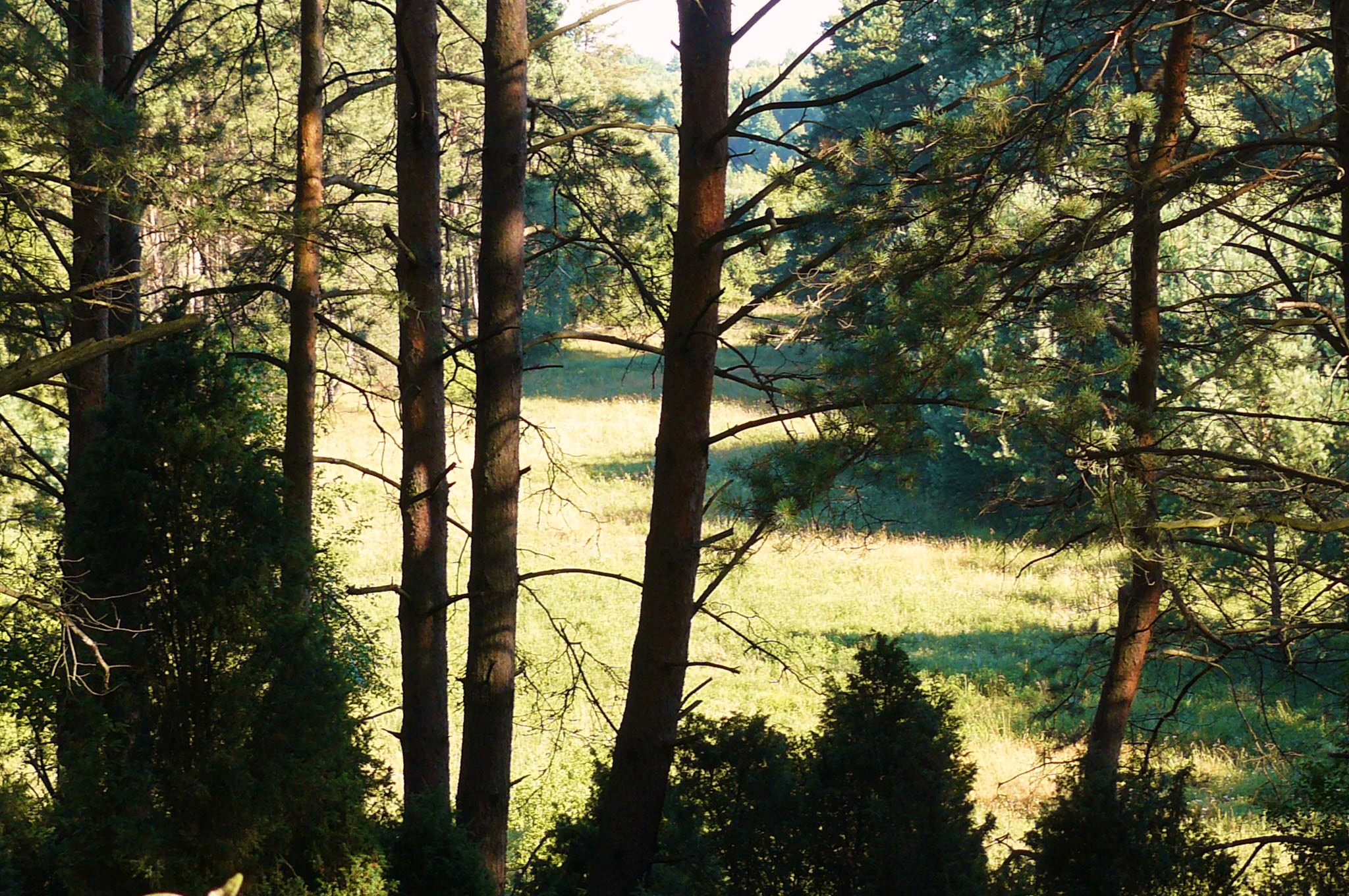 Smolary - natural reservat, Poland.